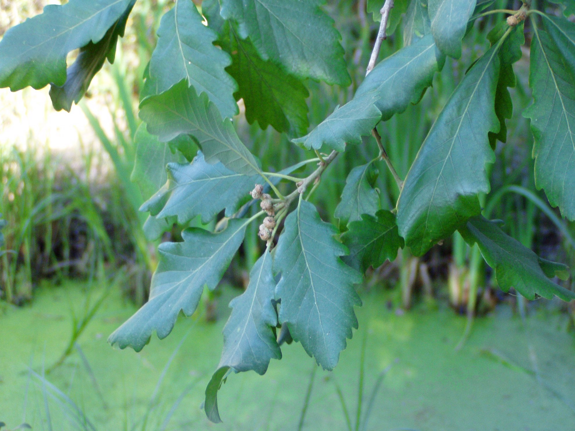 Canary Oak